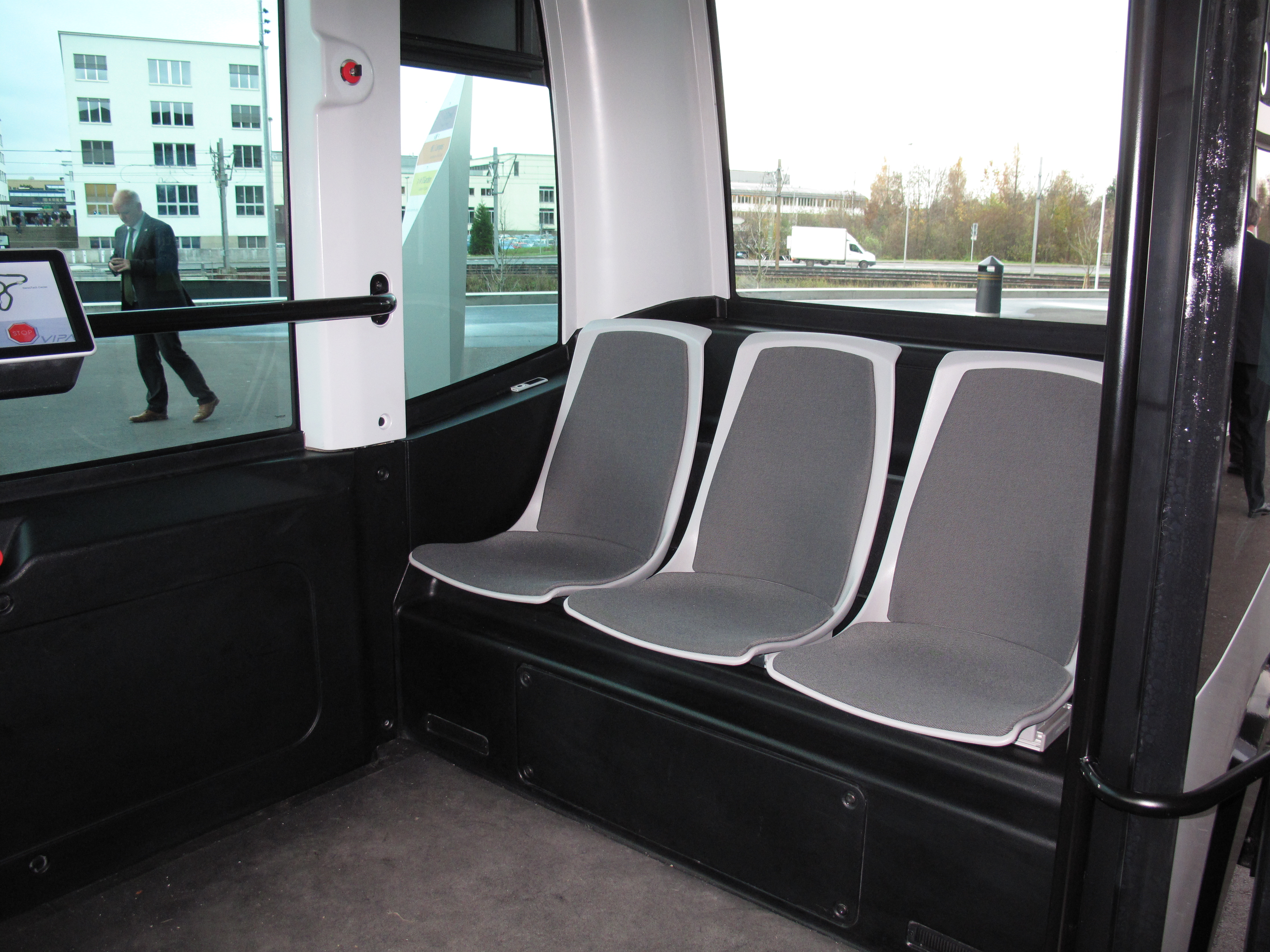 Ligier EZ-10 autonomous electric minishuttle being demonstrated in front of the EPFL Conference Centre.